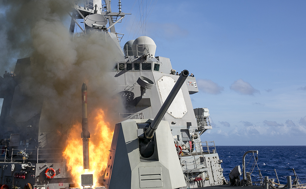 The U.S. Navy Arleigh Burke-class guided-missile destroyer USS Mustin (DDG-89) launches an RUM-139 VL-ASROC anti-submarine rocket during a live-fire exercise off Guam. Mustin was participating in "Multi-Sail 2014", an annual exercise in the 7th Fleet area of responsibility.